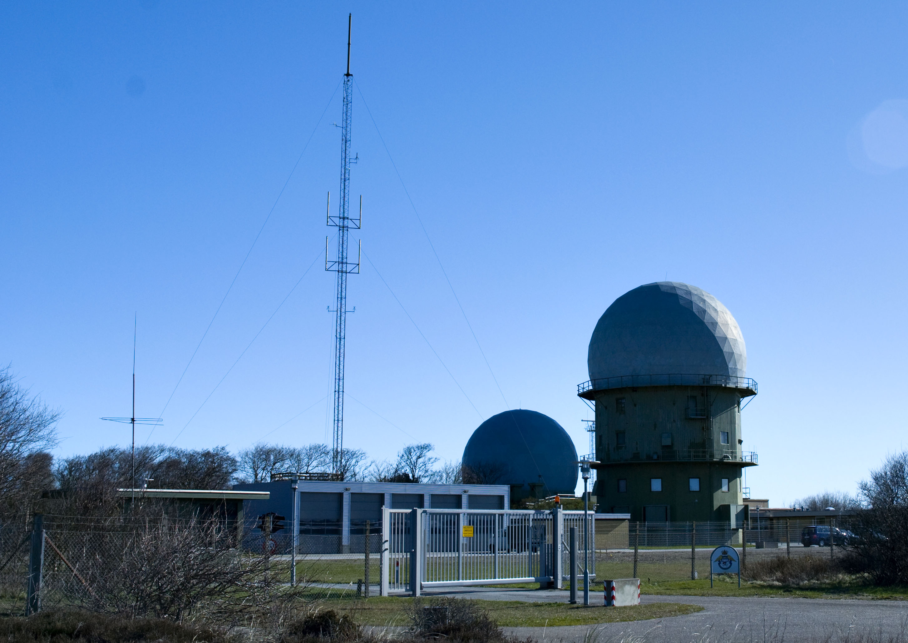 The air force radar-site Skagen